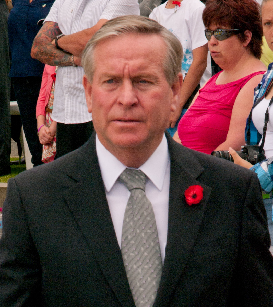 Remembrance Day ceremony Kings Park, Western Australia November 11 2012 Colin Barnett